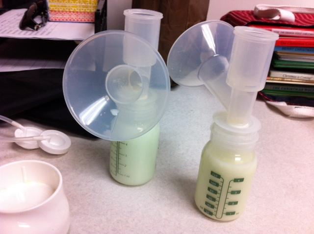 Two full bottles of pumped human breast milk